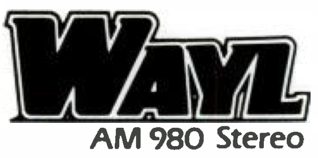 WAYL 980 logo as it appeared in print in 1989.